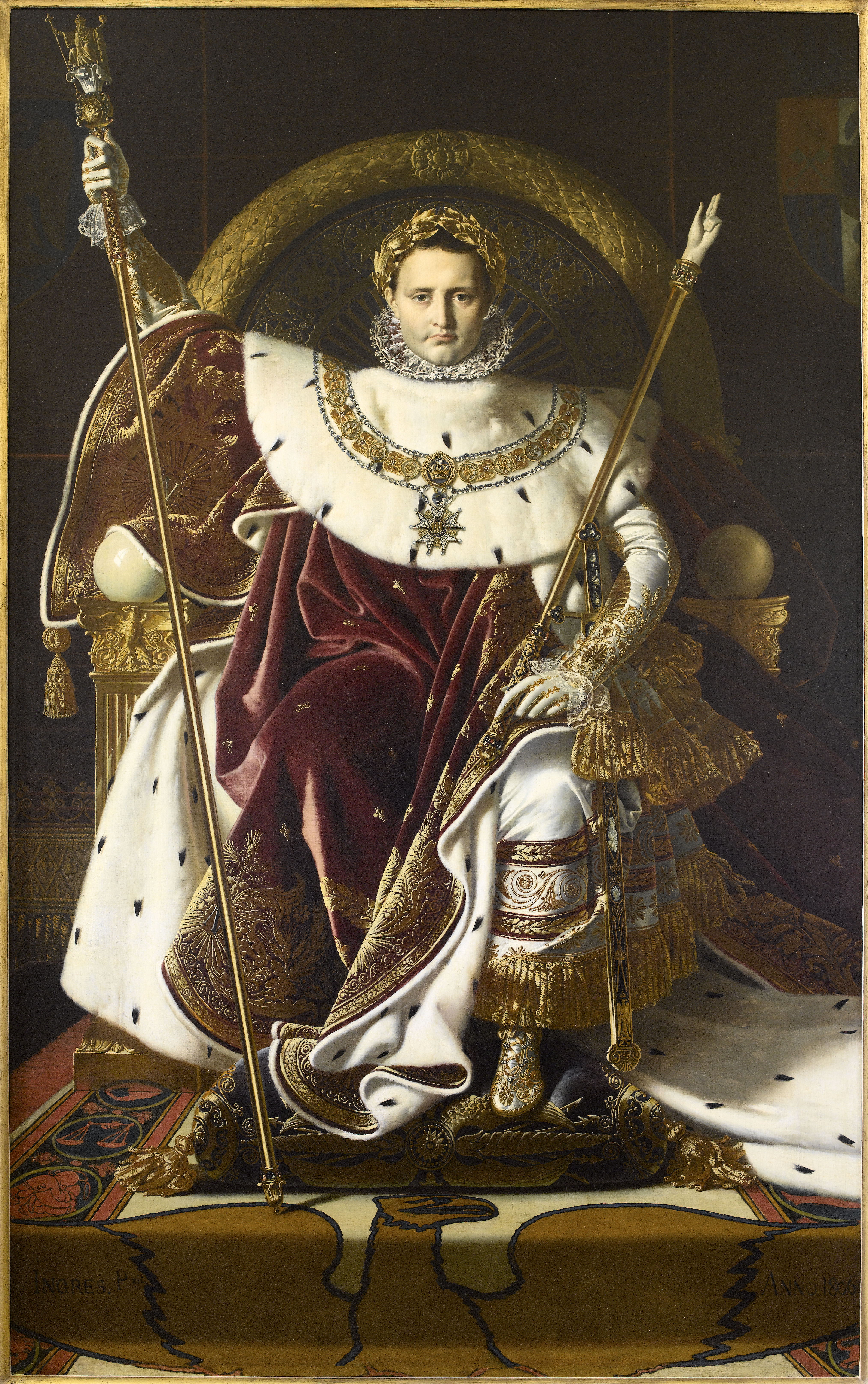 Portrait de Napoléon